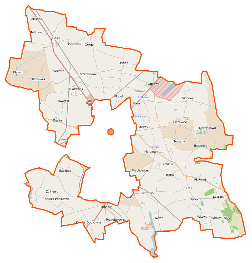 Map of Gmina Inowrocław, Poland This map of Inowrocław (gmina wiejska) was created from OpenStreetMap project data, collected by the community. This map may be incomplete, and may contain errors. Don't rely solely on it for navigation. Border coordinates52.886718.1322←↕→18.422052.7039